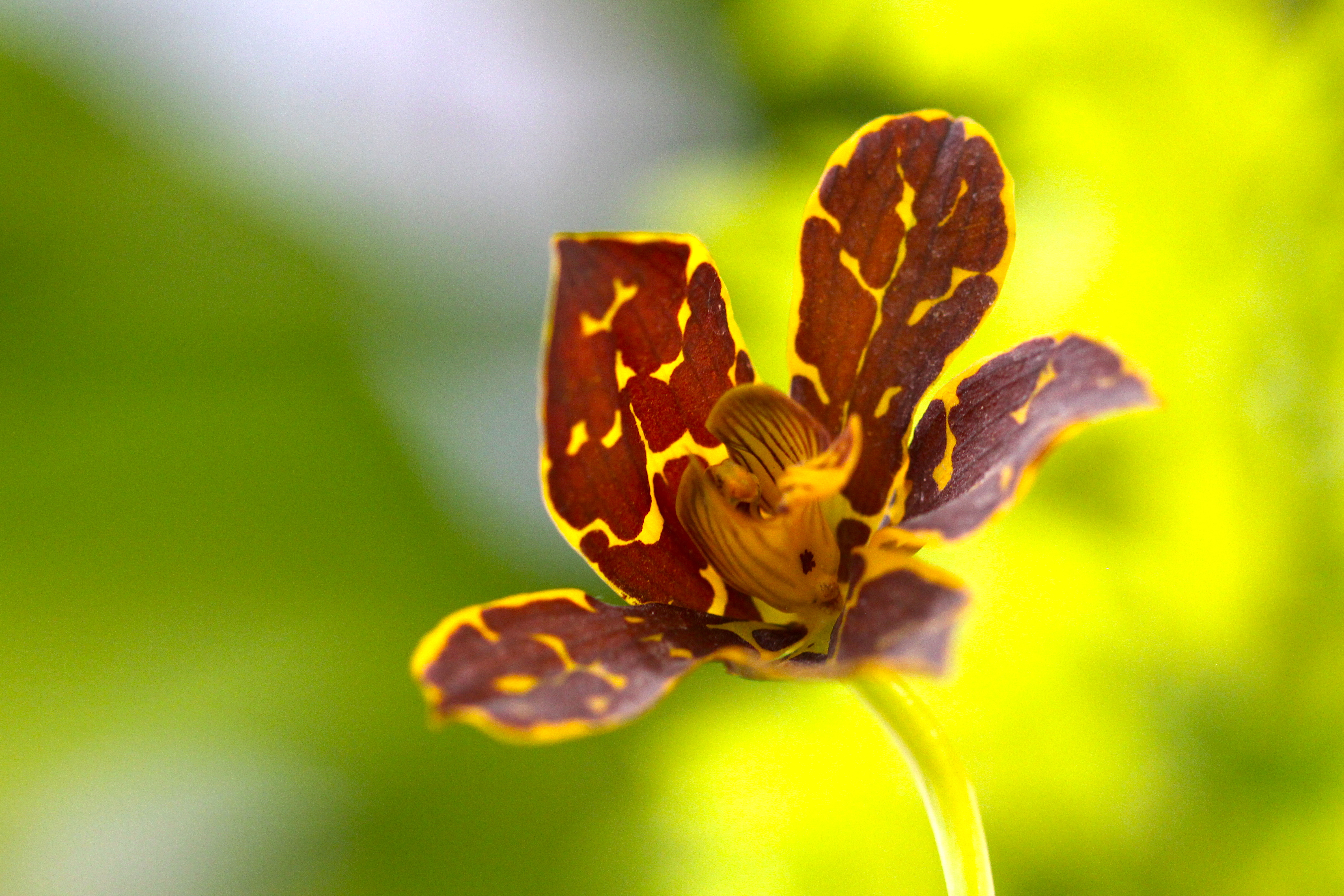 Plants of nature in Thailand